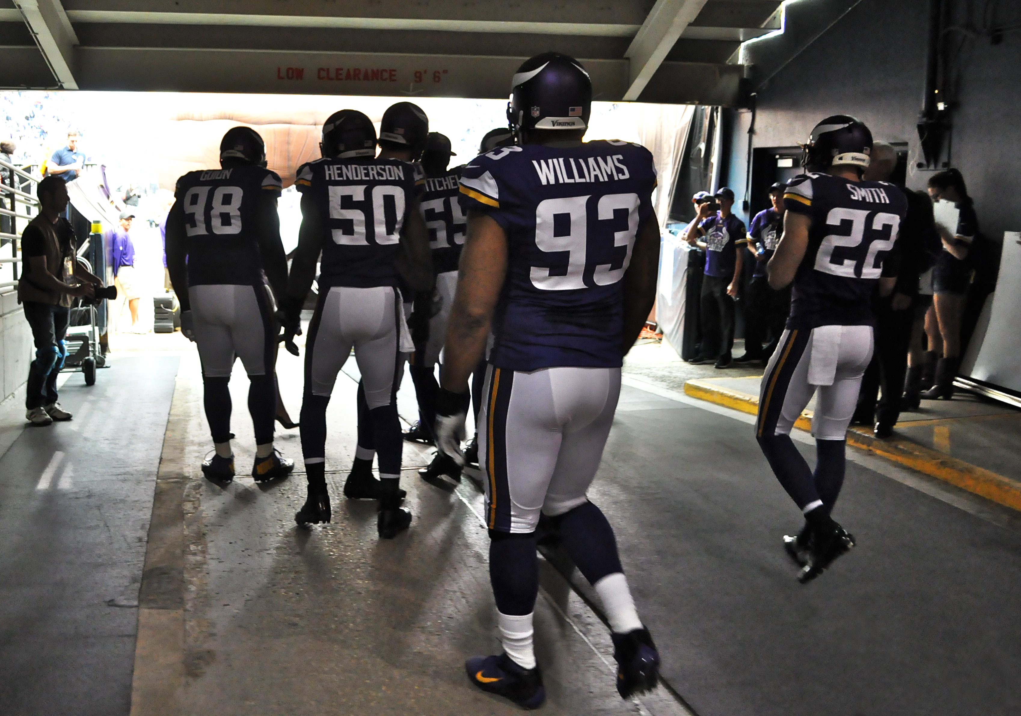 DT Letroy Guion and Kevin Williams, LB Erin Henderson and Marvin Mitchell and FS Harrison Smith in the Metrodome tunnel before Cleveland@Minnesota 2013